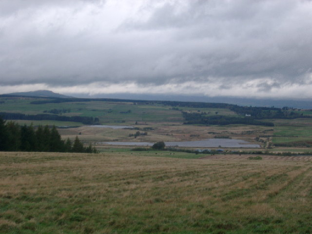 Carsebreck Loch & Upper Rhynd, near Braco. Farm buildings are Netherton Farm. The A9 and the Stirling Inverness railway run this side of the loch. The land beyond the lochs was occupied by the Romans - part of the most northerly Roman frontier in Europe, along the Gask range. Just beyond the rise behind the far loch is the remains of a Roman road.